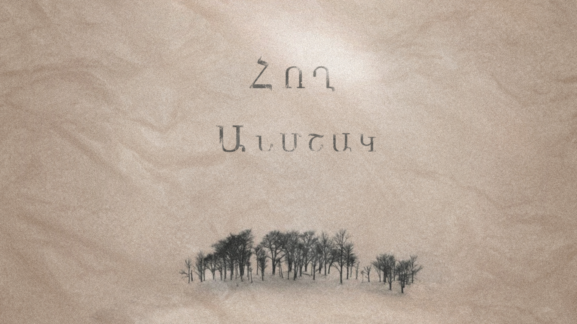 Անմշակ